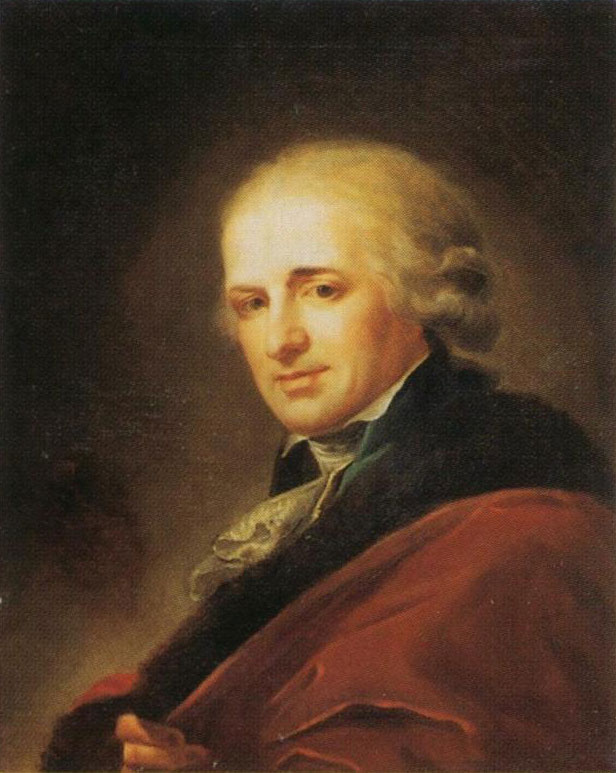 Belarusian (Taraškievica orthography): Юльян Урсын Нямцэвіч